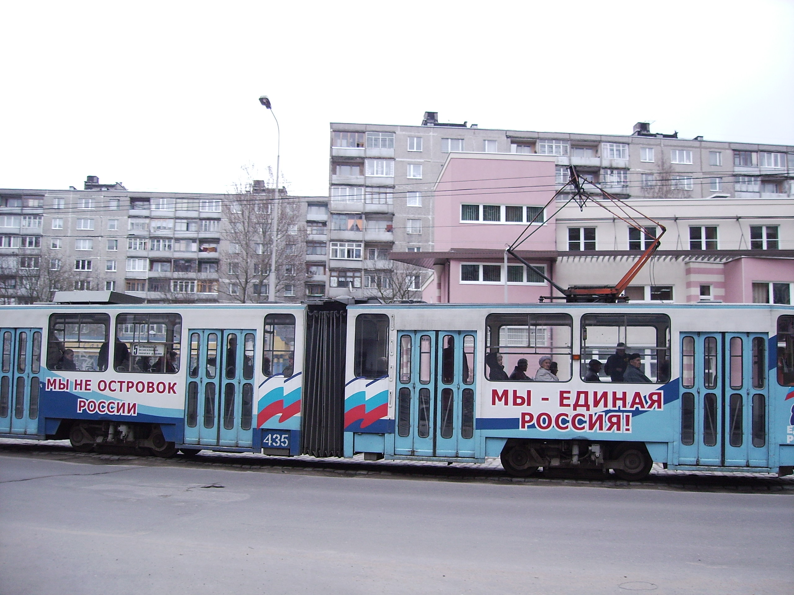 Kaliningrad, type Tatra KT4 tram (car no 435, line 5) with the propaganda of United Russia party. 9 Aprelya street.